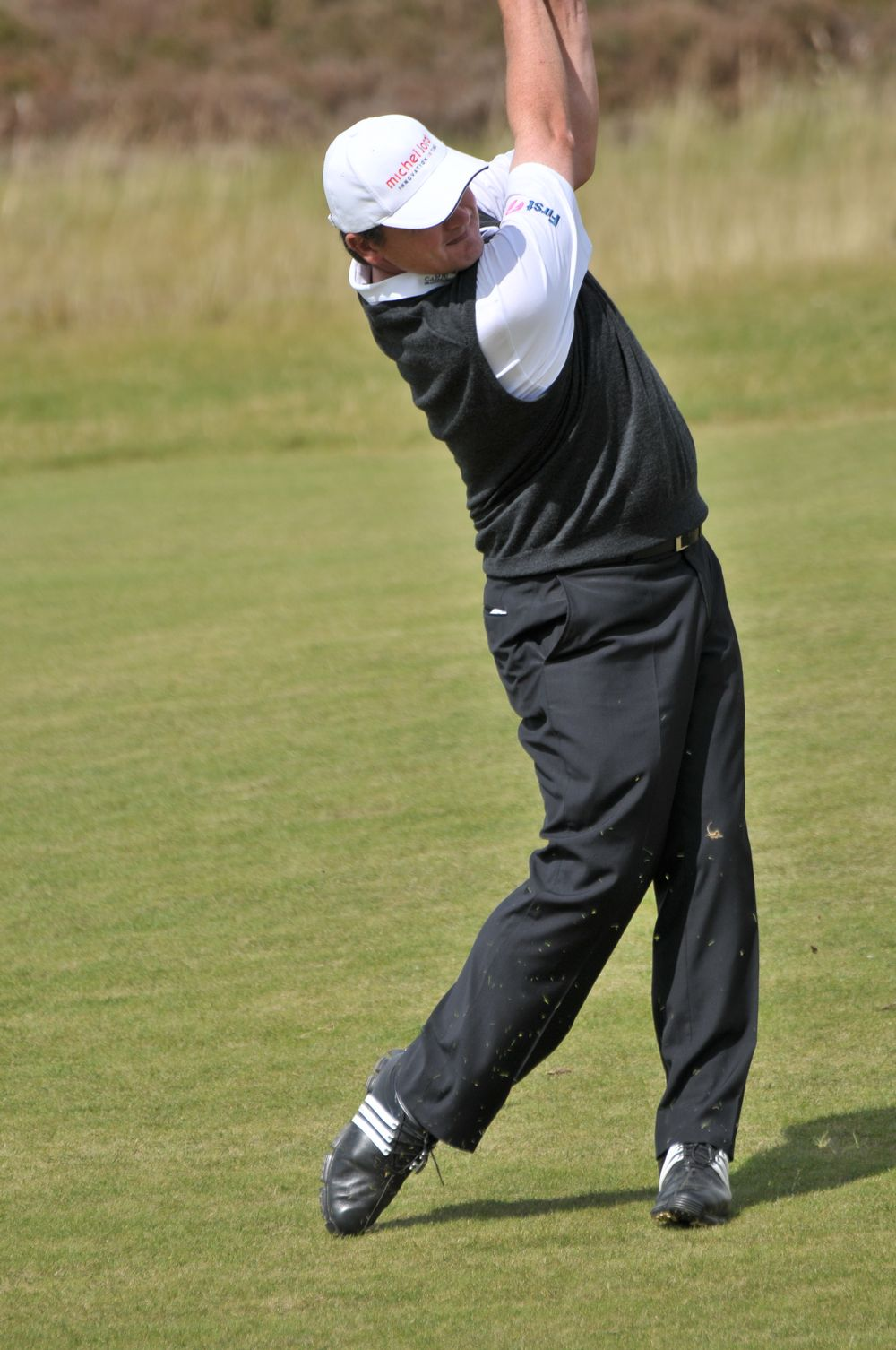 Paul Lawrie. Image taken by Aaron Sneddon on Nikon d300